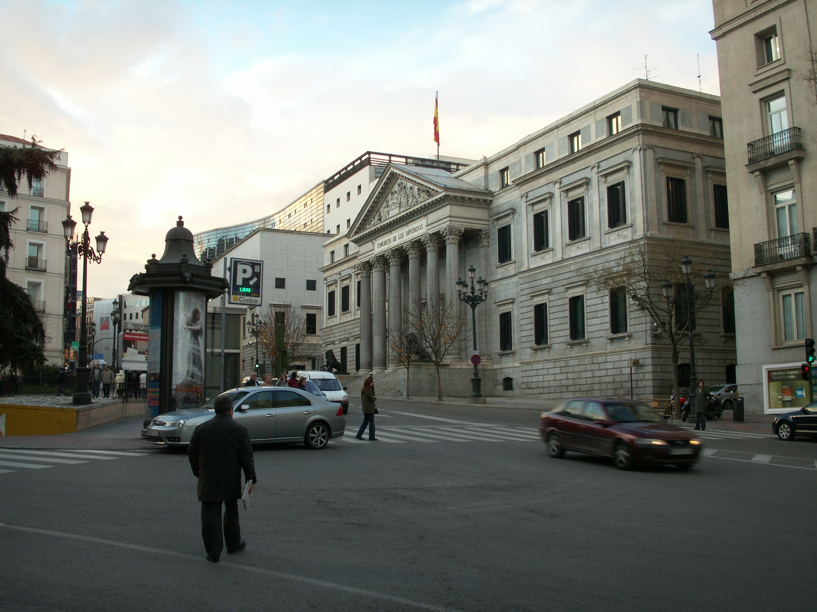 A view of Plaza de las Cortes (square) in Madrid (Spain). At the right, the Spanish Congress of Deputies building.